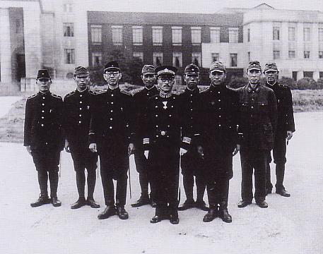 Serjeant at Arms of the Imperial Diet of Japan